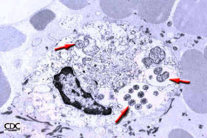 Electronphotomicrograph of morulae in a bone marrow leukocyte in a patient with ehrlichiosis. Arrows indicate individual ehrlichiae.